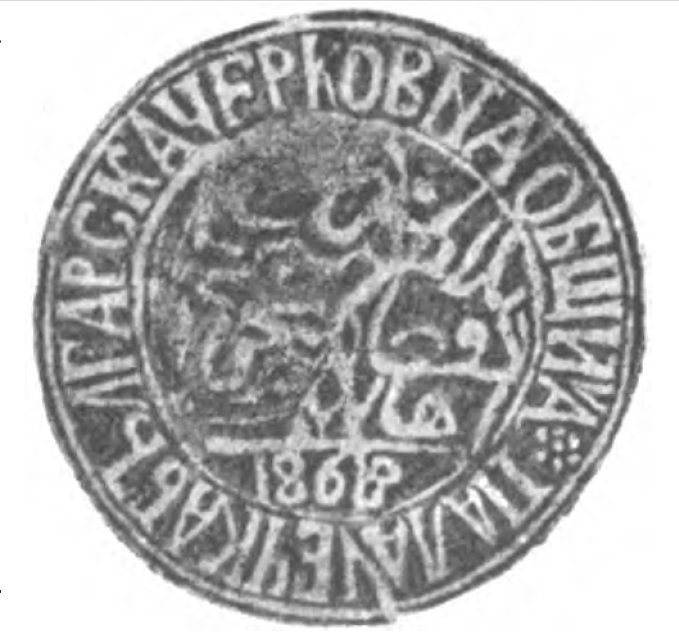 Kriva Palanka bulgarian exarchist church seal